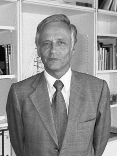 Title: Bonn, Besuch Minister Keita; Carl Werner Sanne Factual corrections and alternative descriptions are encouraged separately from the original description. Additionally errors can be reported at this page to inform the Bundesarchiv. Original historic description: Staatssekretär Carl Werner Sanne empfängt den Minister für industrielle Entwicklung und Tourismus der Republik Mali, Lamine Keita, im Bundesministerium für wirtschaftliche Zusammenarbeit